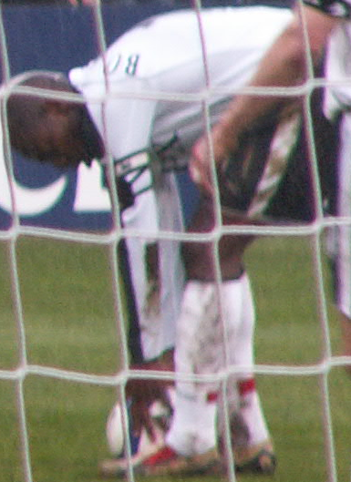 Luís Boa Morte. Image cropped from original at flickr.